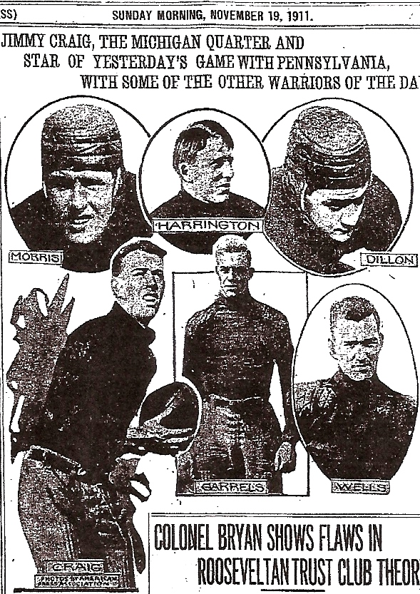 Illustration from Fort Wayne newspaper in 1911 showing James B. Craig, football player for the University of Michigan.